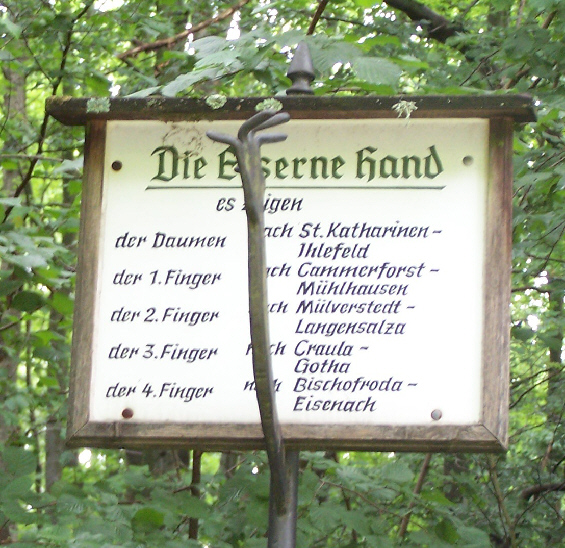 The so called IRON HAND a way finder in Hainich forest.